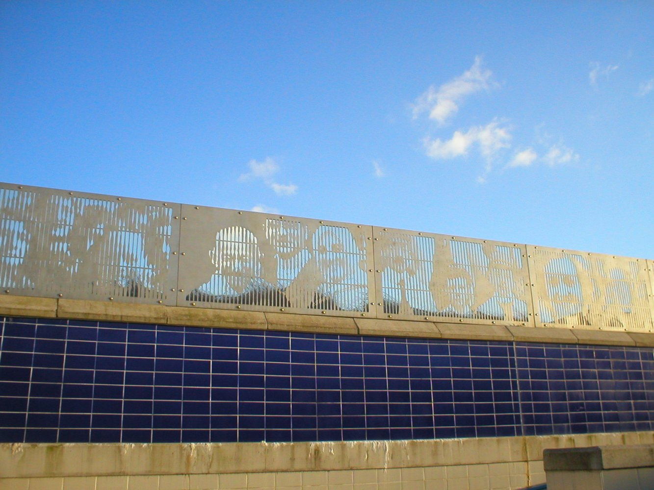 Blackburn Railway Station features a 24 ft mural by Stephen Charnock, which depicts eight famous faces associated with the town, including Mahatma Gandhi, who visited nearby Darwen in 1931.